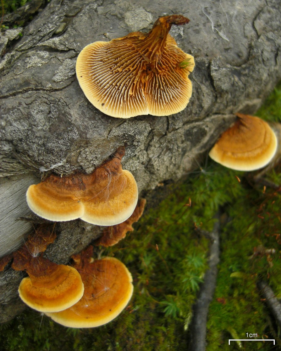 Gloeophyllum sepiarium 20090926.72 Canada, BC, Incomappleux Inland Rainforest